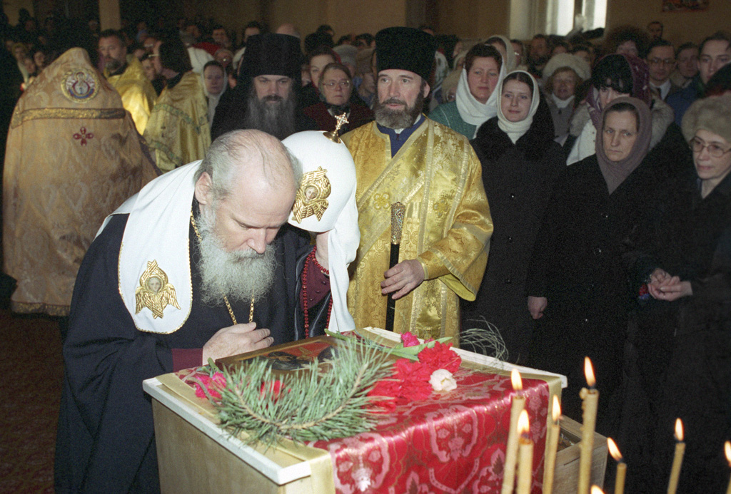 “Patriarch Alexy II celebrating feast of St.Tatiana”. Festal divine service celebrated in St. Tatiana's church at the Lomonosov Moscow State University by Patriarch Alexy II of Moscow and All Russia (left).